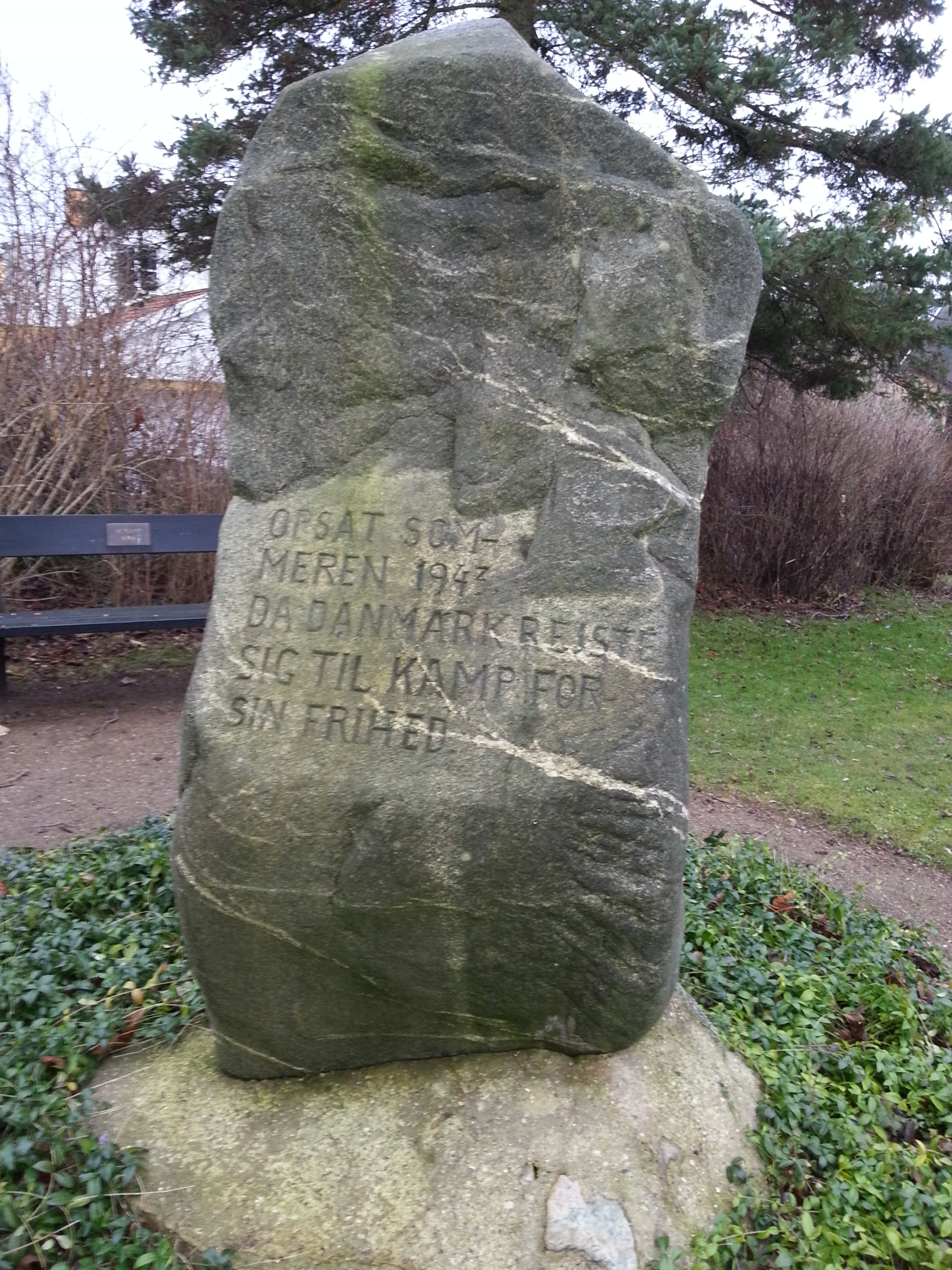 Memory of Johannes Ewald in Espergærde 4